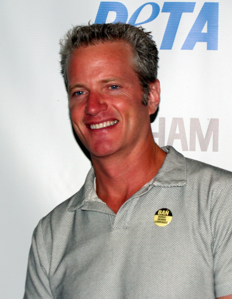 Dan Mathews at an event honoring filmmaker and activist Donny Moss for his movie Blinders.